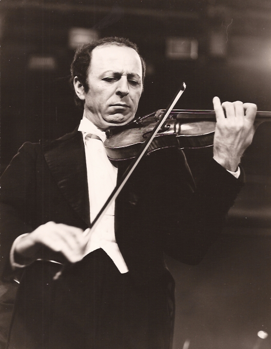 Jean Ter-Merguerian (Marseille, France October 5, 1935 - Marseille, 29 September 2015) was a French-Armenian violinist and teacher.